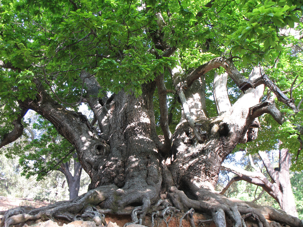 Sacred Chestnut of Istán, Málaga, Spain